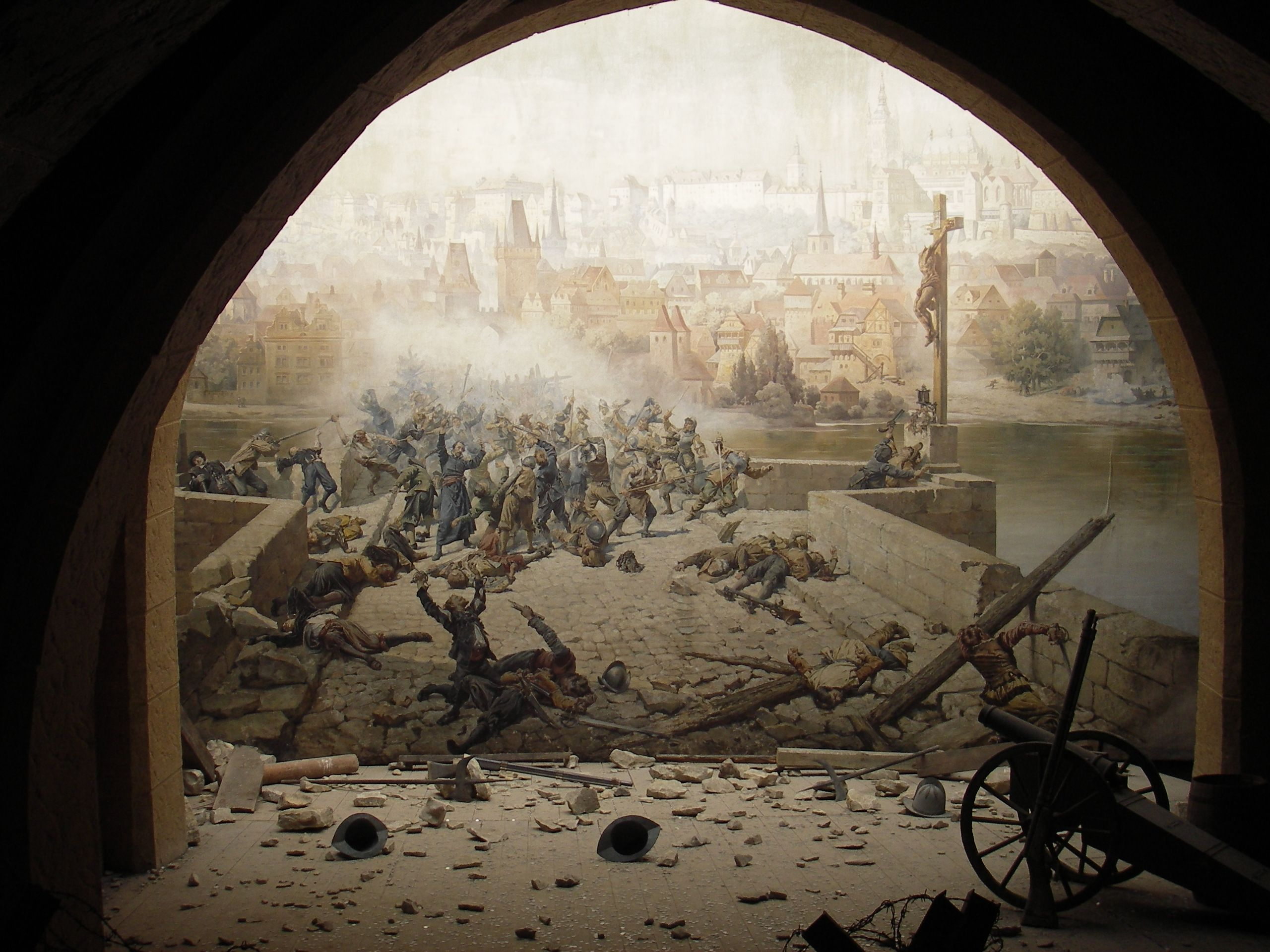 Battle on Charles Bridge in Prague in 1648, ending the Thirty Years' War. Picture and installation created for the Prague exhibiton of 1891.